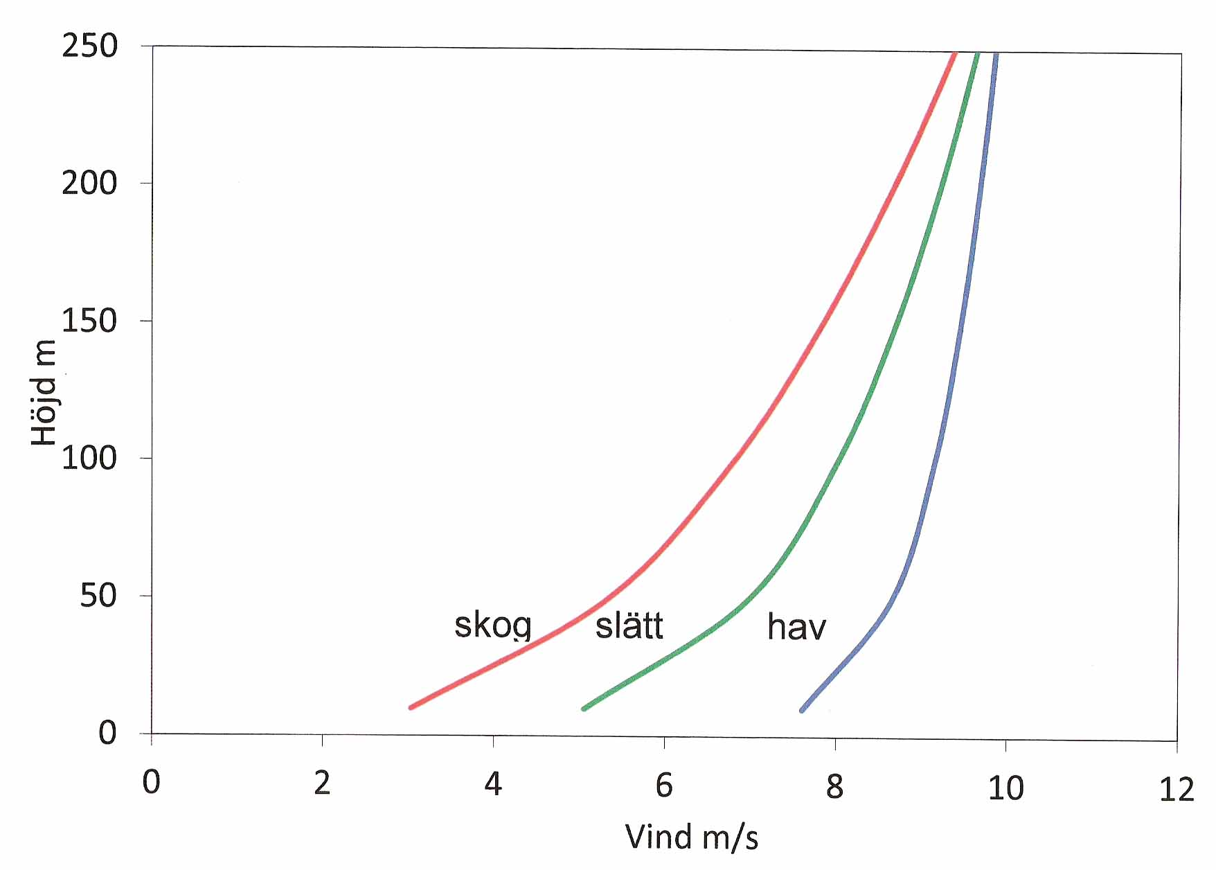 Wind shear above forest, open plain and sea